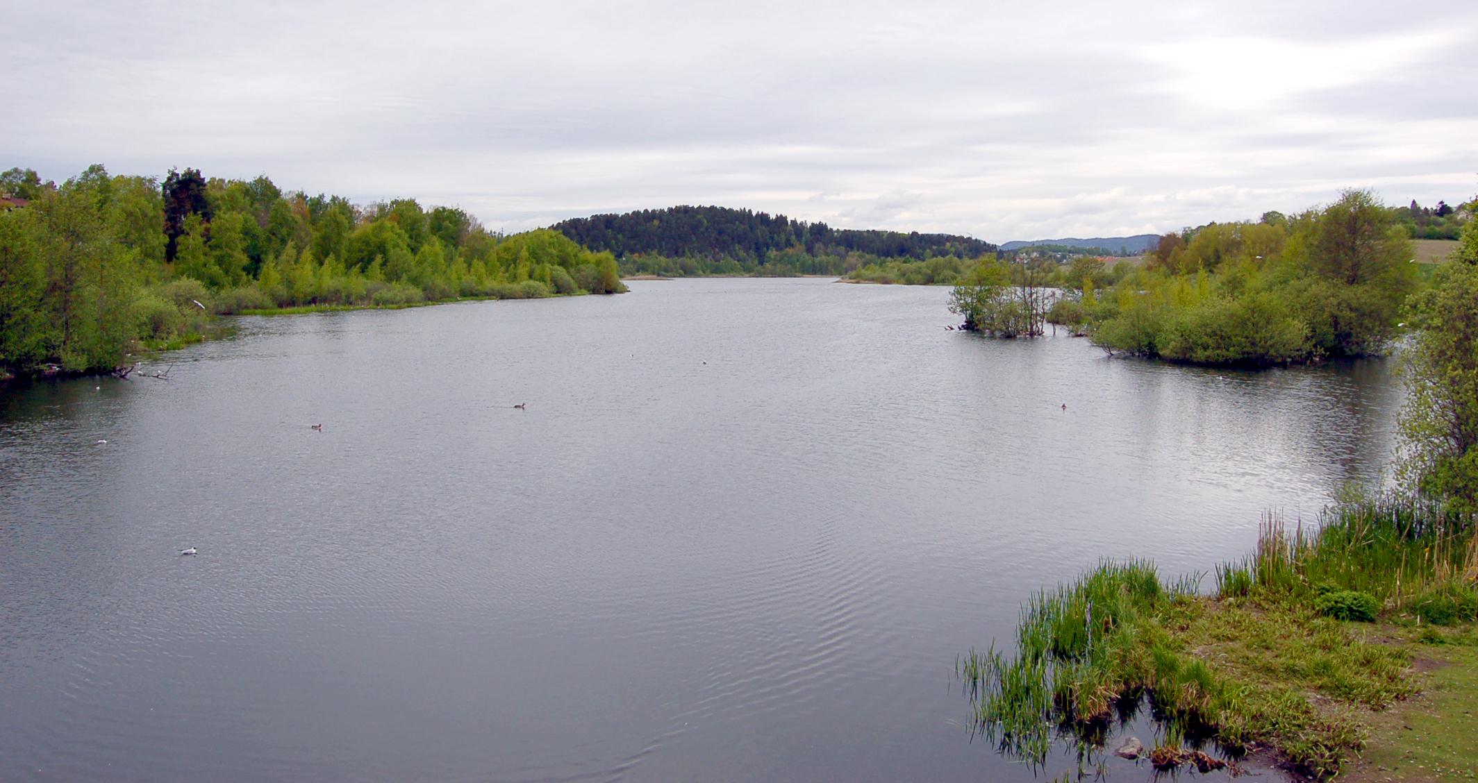 Østensjøvannet is a lake in Oslo, capital of Norway. It is well-known for the wide variety of birds and other wildlife that can be found there.